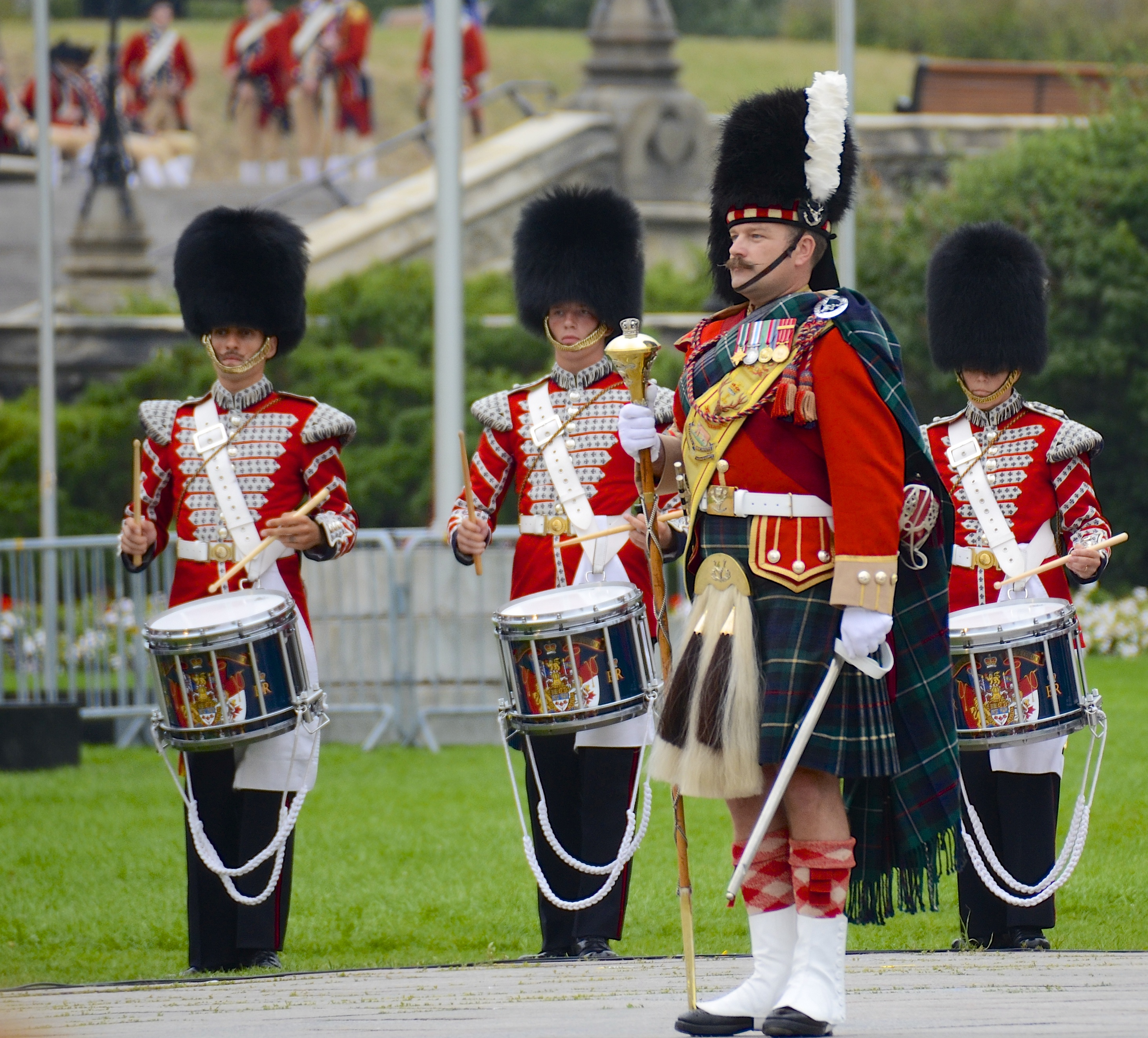 Members of the Governor General's Ceremonial Guard perform at Fortissimo 2012. All soldiers are drawn from the Canadian Forces Army Reserve/Militia.